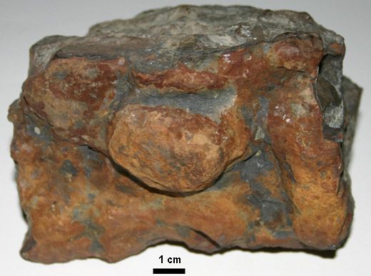 Ironstone from the Pennsylvanian Breathitt Formation, Mile Marker 166, I-64, Kentucky